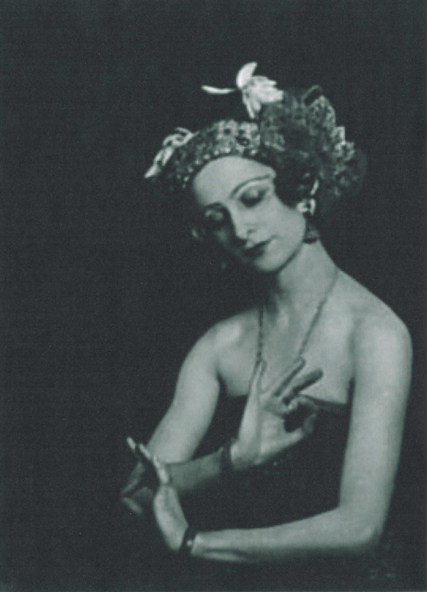 Portrait of Stella Bloch